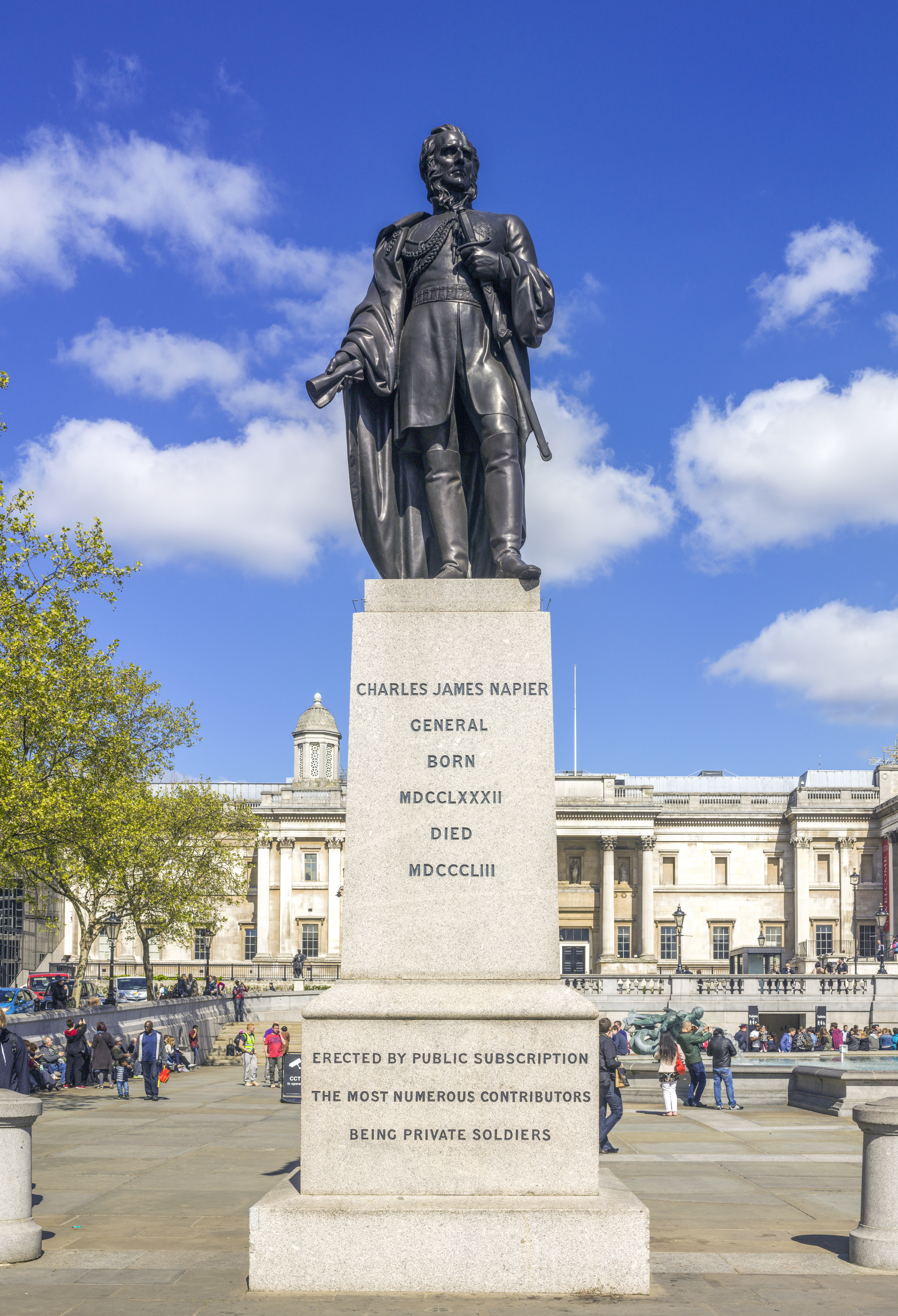 Statue of Charles James Napier Wikidata has entry Q18162002 with data related to this item.